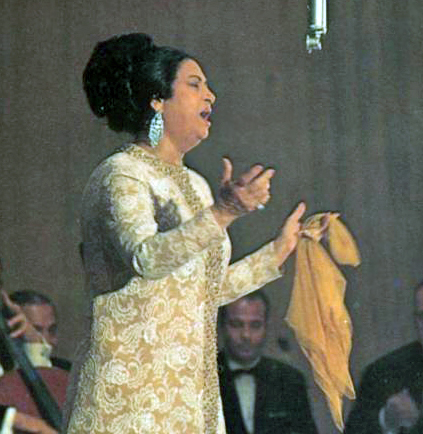 A cropped photo of the Egyptian Singer Umm Kalthoum who died in 1975 at 71 years old.